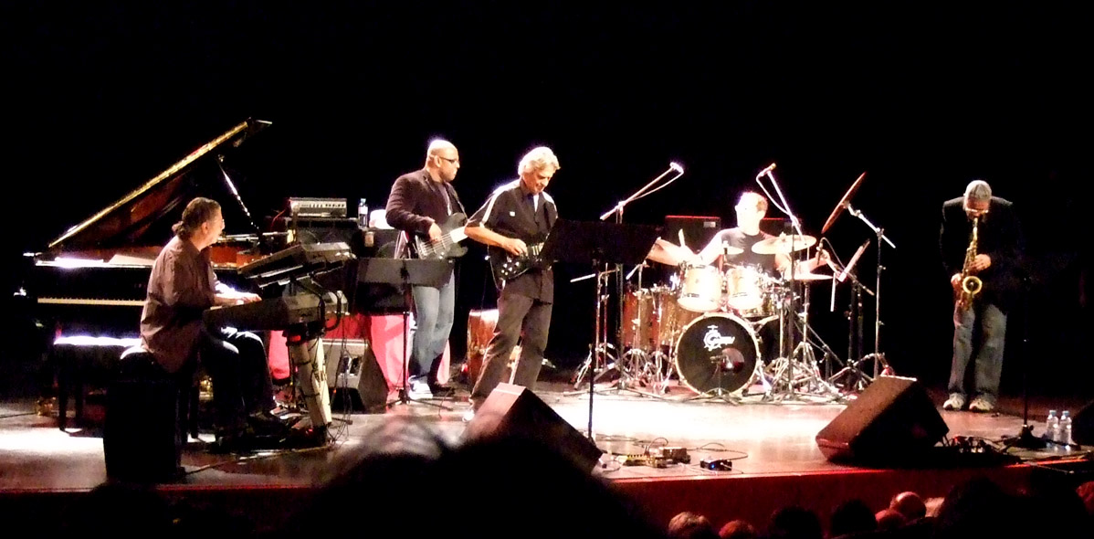 Five Peace Band: Chick Corea - piano, keyboards, John McLaughlin - e-guitar, Kenny Garrett - saxophone, Christian McBride - bass, Vinnie Colaiuta - drums; concert at the Stadthalle in Vienna.